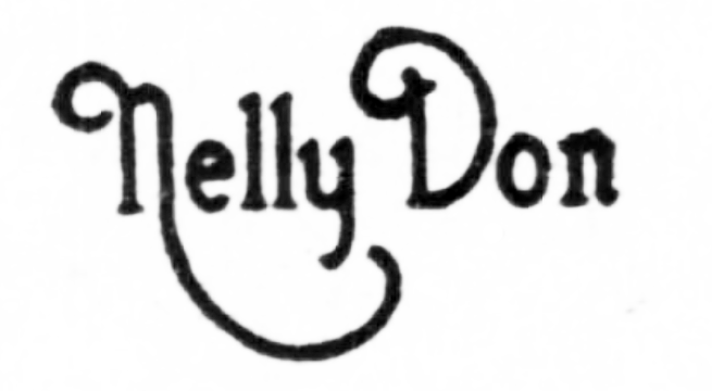 The logo of the "Nelly Don" fashion label founded by Nell Donnelly Reed in 1916, taken from an illustration published in 1921